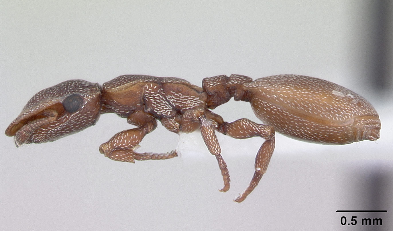 Profile view of ant Cephalotes incertus specimen casent0173681.